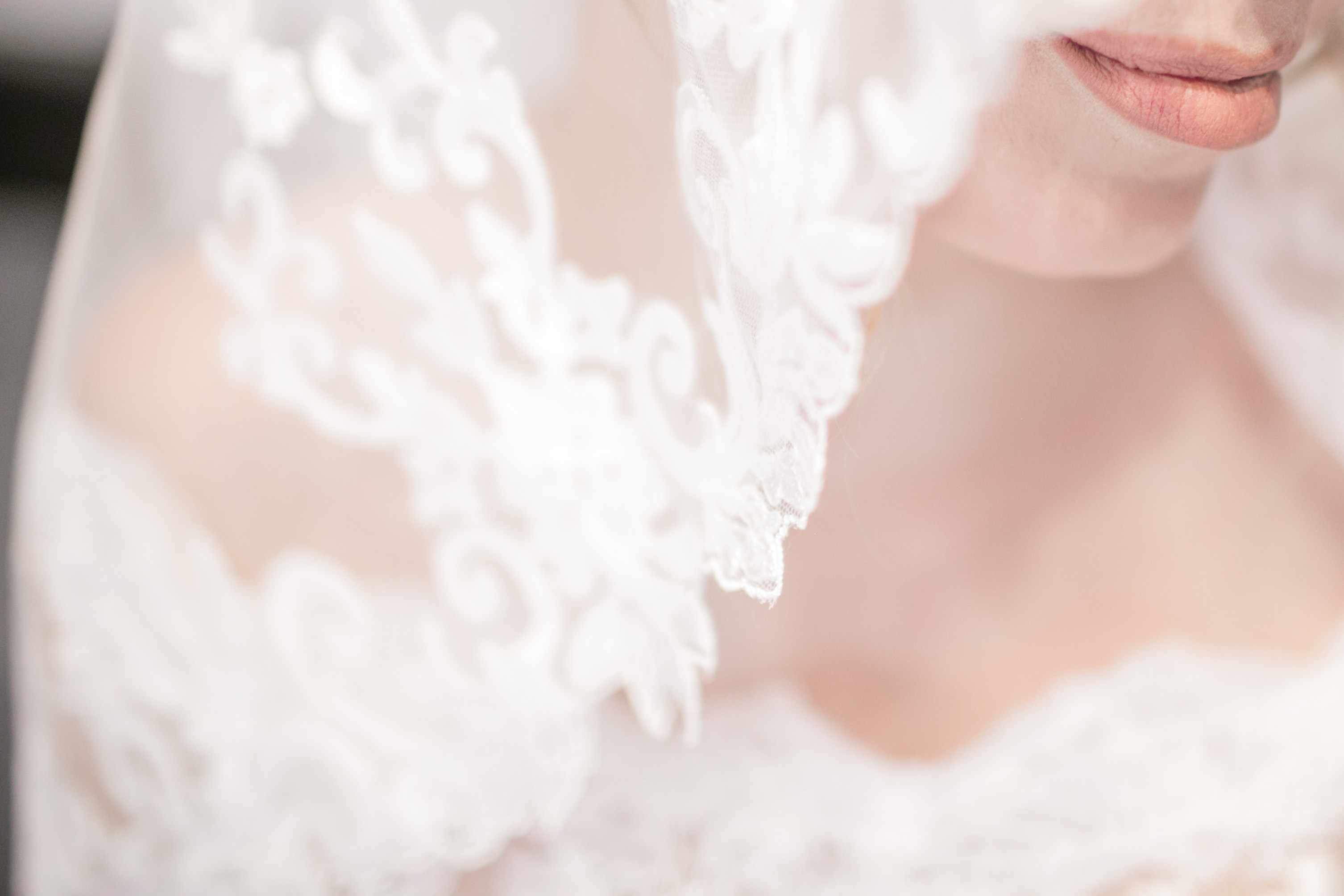 nic 2016-09-07